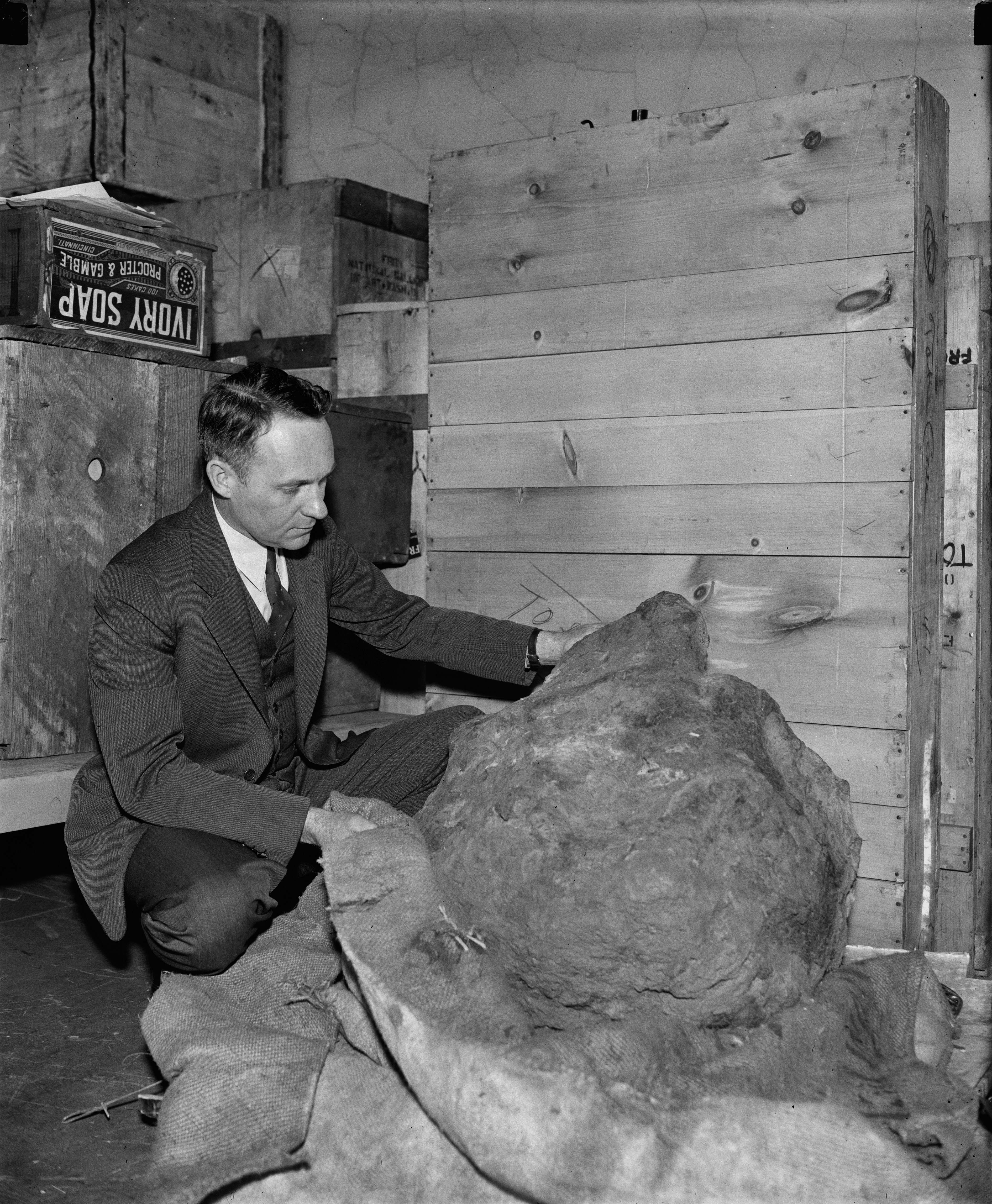 A fragment of largest shooting star placed in Smithsonian Institution. Washington, D.C., April 4. This 2,000 pound meteorite, probably a fragment of one of the largest shooting stars which have struck the earth, has been added to the meteorite collection of the Smithsonian Institution. It was found in 1903 near the town of Pearcedale, not far from Melbourne, Australia, the general area of the Cranbourne Meteorite which was discovered in 1854. E.P. Henderson, of the Smithsonian Institution, is pictured inspecting the huge mass, 4-4-39